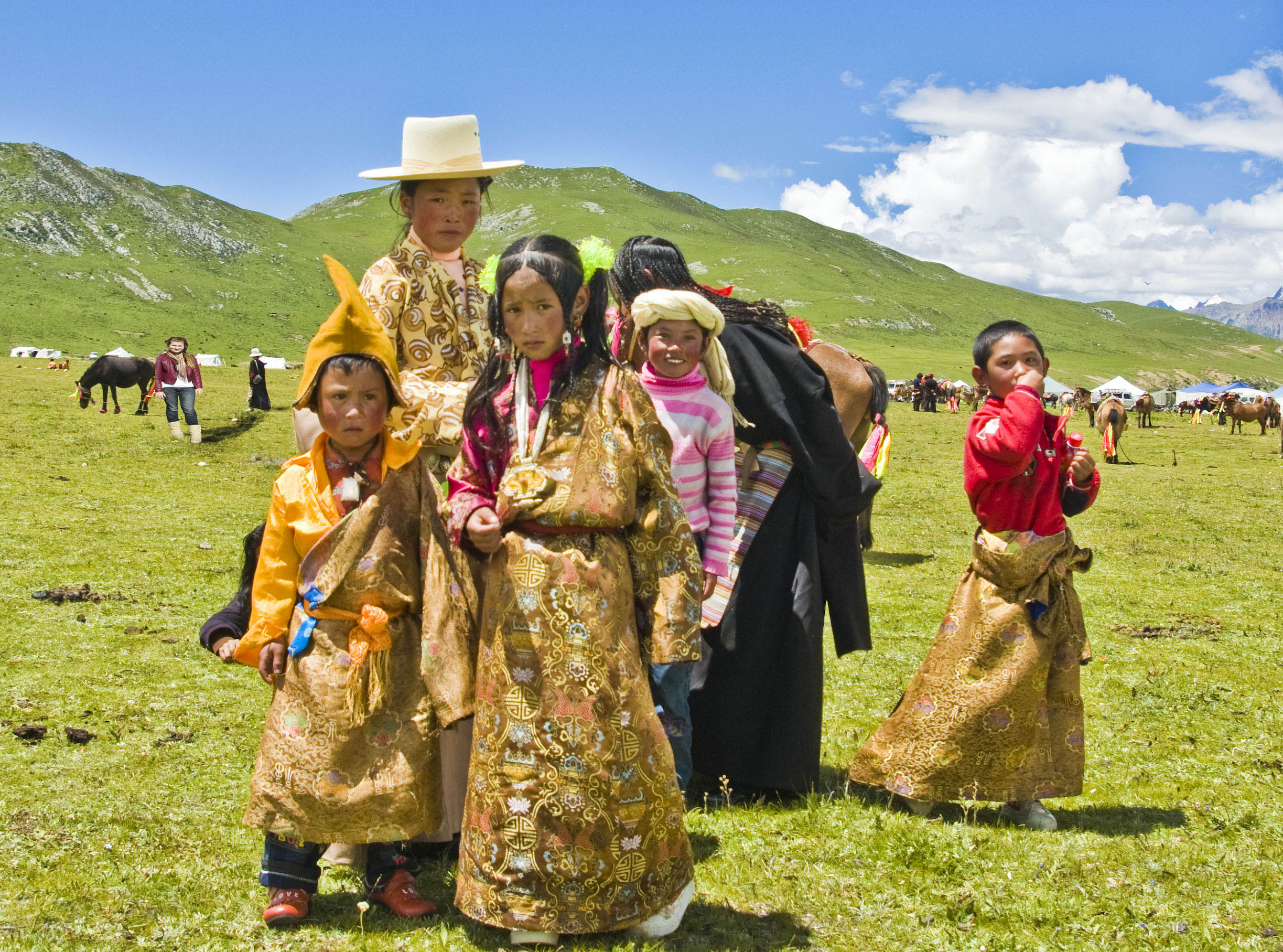 Local Tibetans tend to a tourist as she cares for animals.